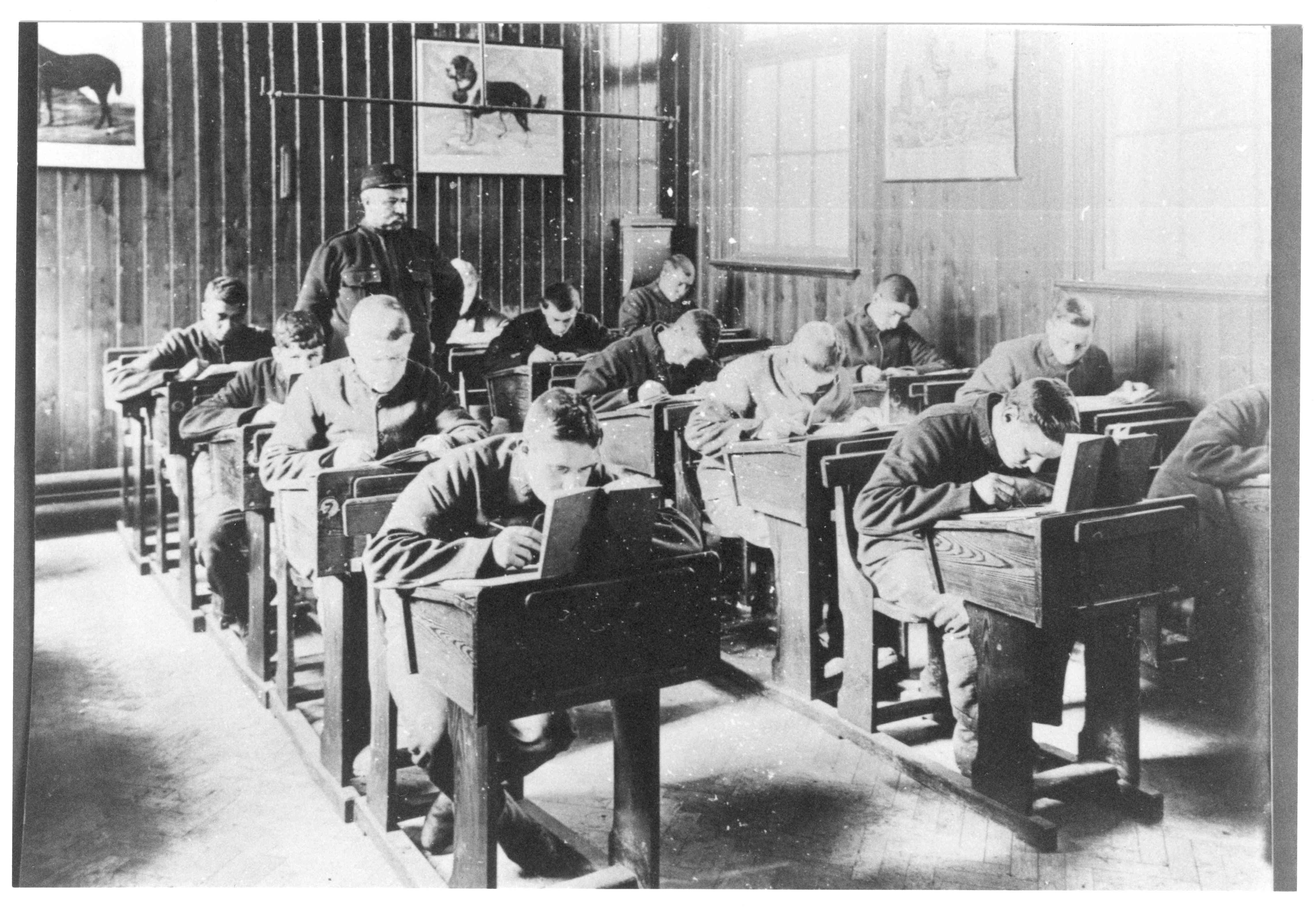 Photograph is of Rochester borstal Kent, England. c1906 Original photograph owned by the National Justice Museum